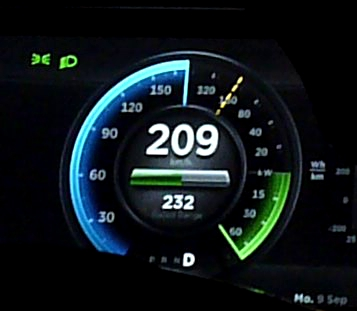 A Tesla Model S P85+ on Autobahn A92 reducing its speed from 209 km/h via regenerative braking power in excess of 60 kW. During regenerative braking the power indicator on the right becomes green